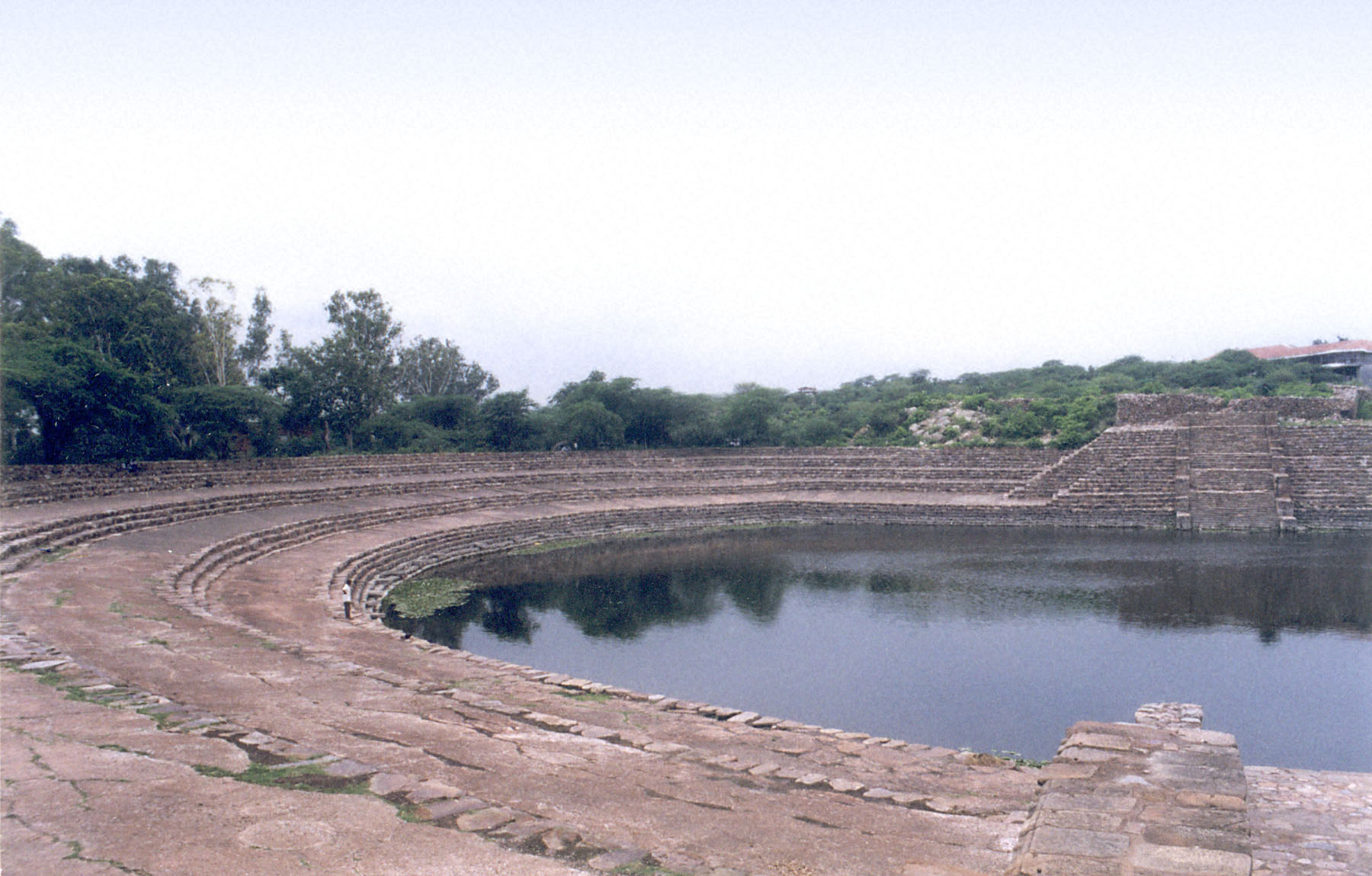 View of Surajkund, a pool with an amphitheater around it.